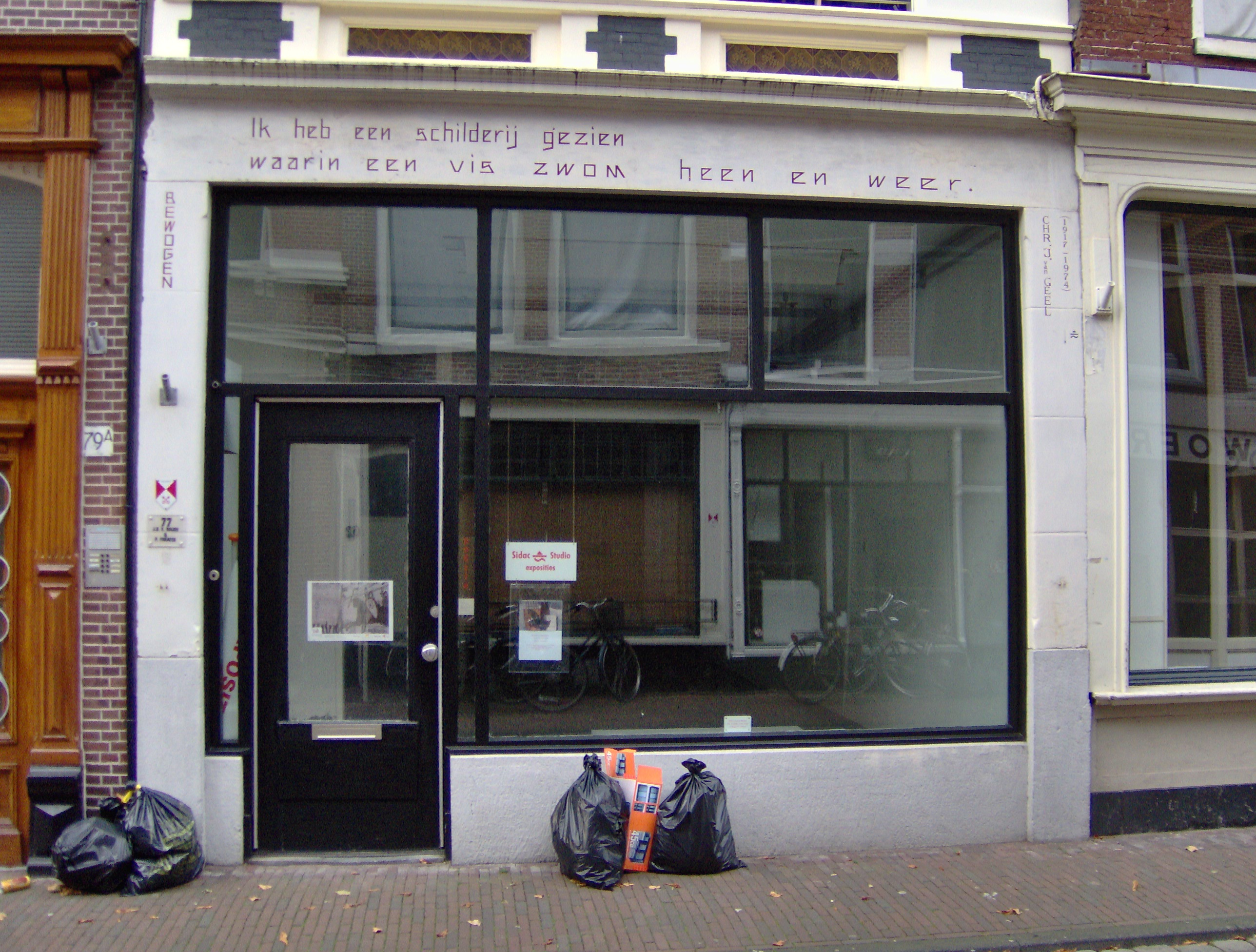 The poem Bewogen ("Moved") of the Dutch poet Christiaan Johannes van Geel on the facade of the building at the Hogewoerd 77 in Leiden, The Netherlands.